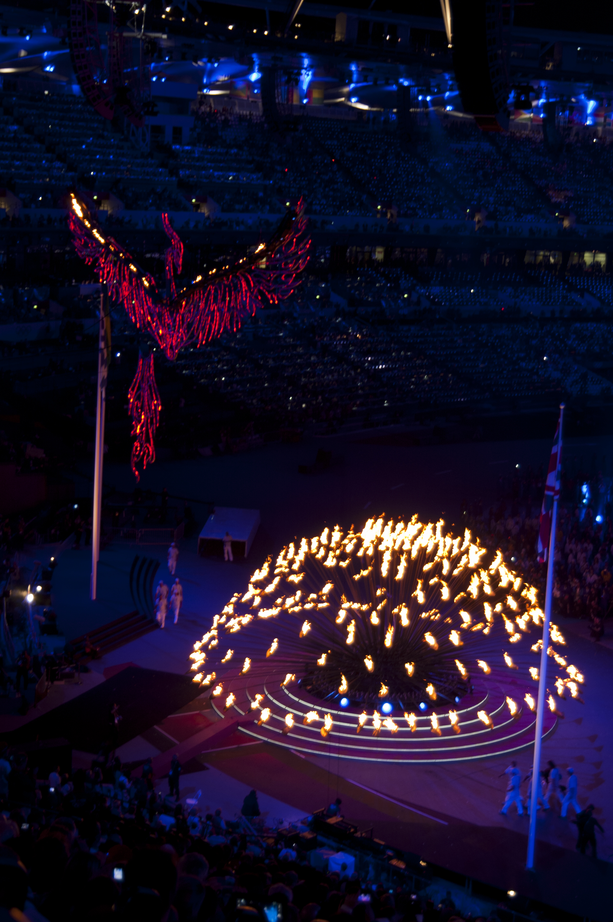 The opening at the Olympic cauldron at the 2012 London Olympic Closing Ceremony just before the cauldron was extinguished.